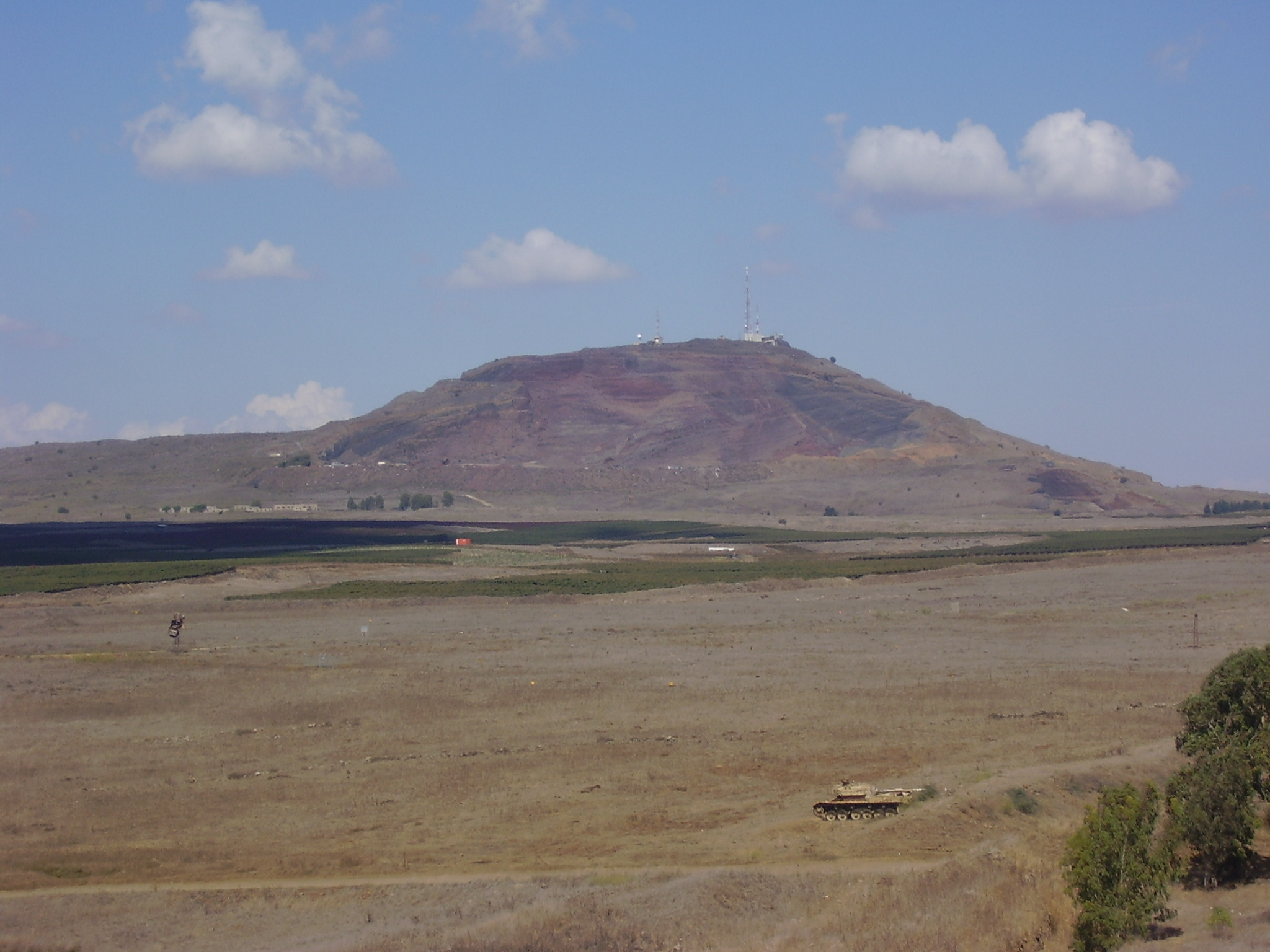 Mount Peres, Golan Heights